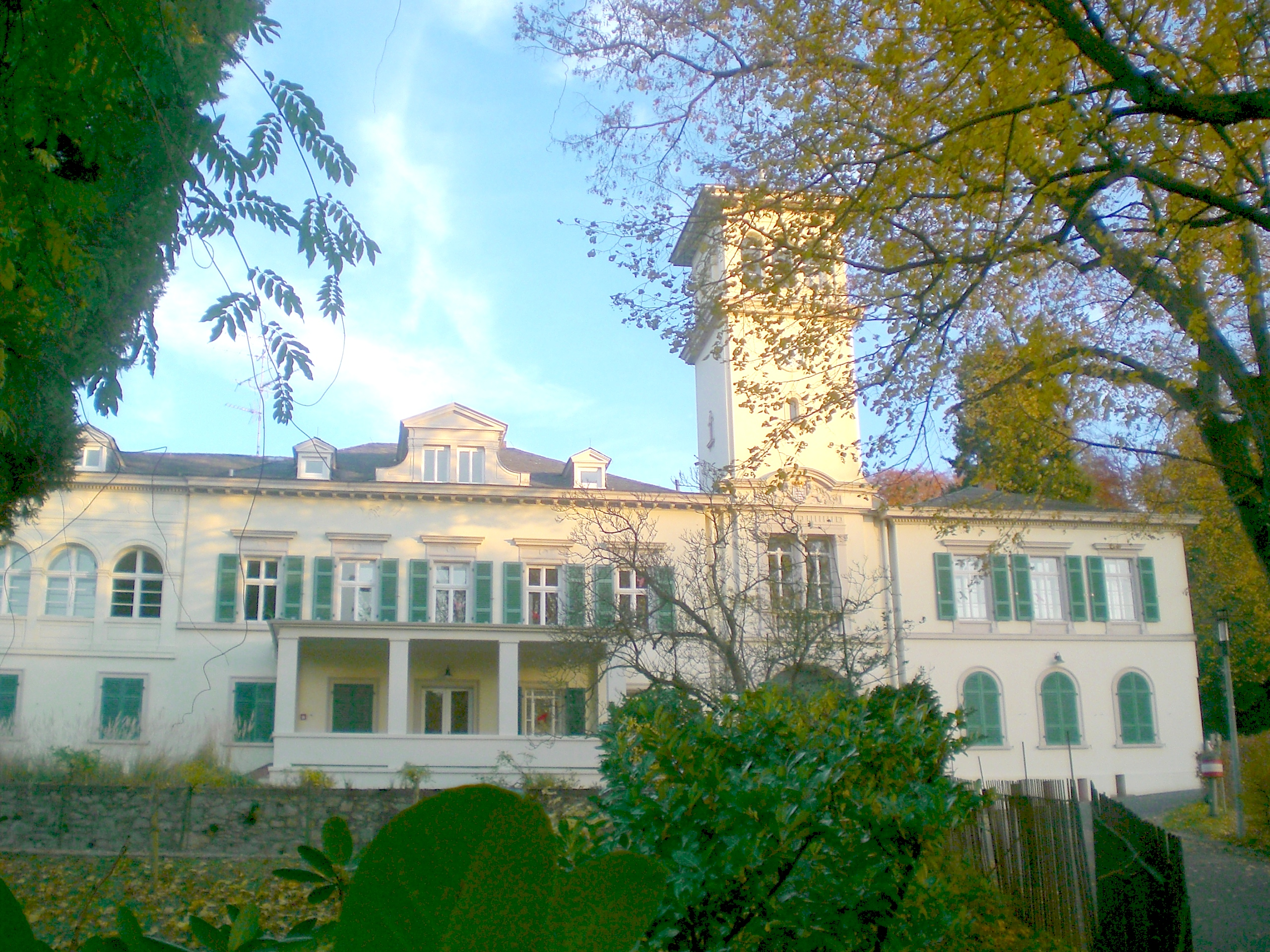 The castle Heiligenberg in Seeheim-Jugenheim, Germany